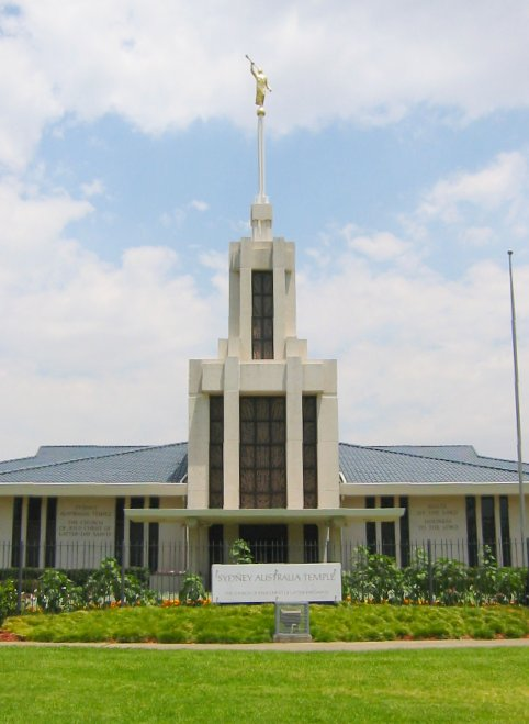 The Sydney Australia Temple of the Church of Jesus Christ of Latter-day Saints in Carlingford, New South Wales.